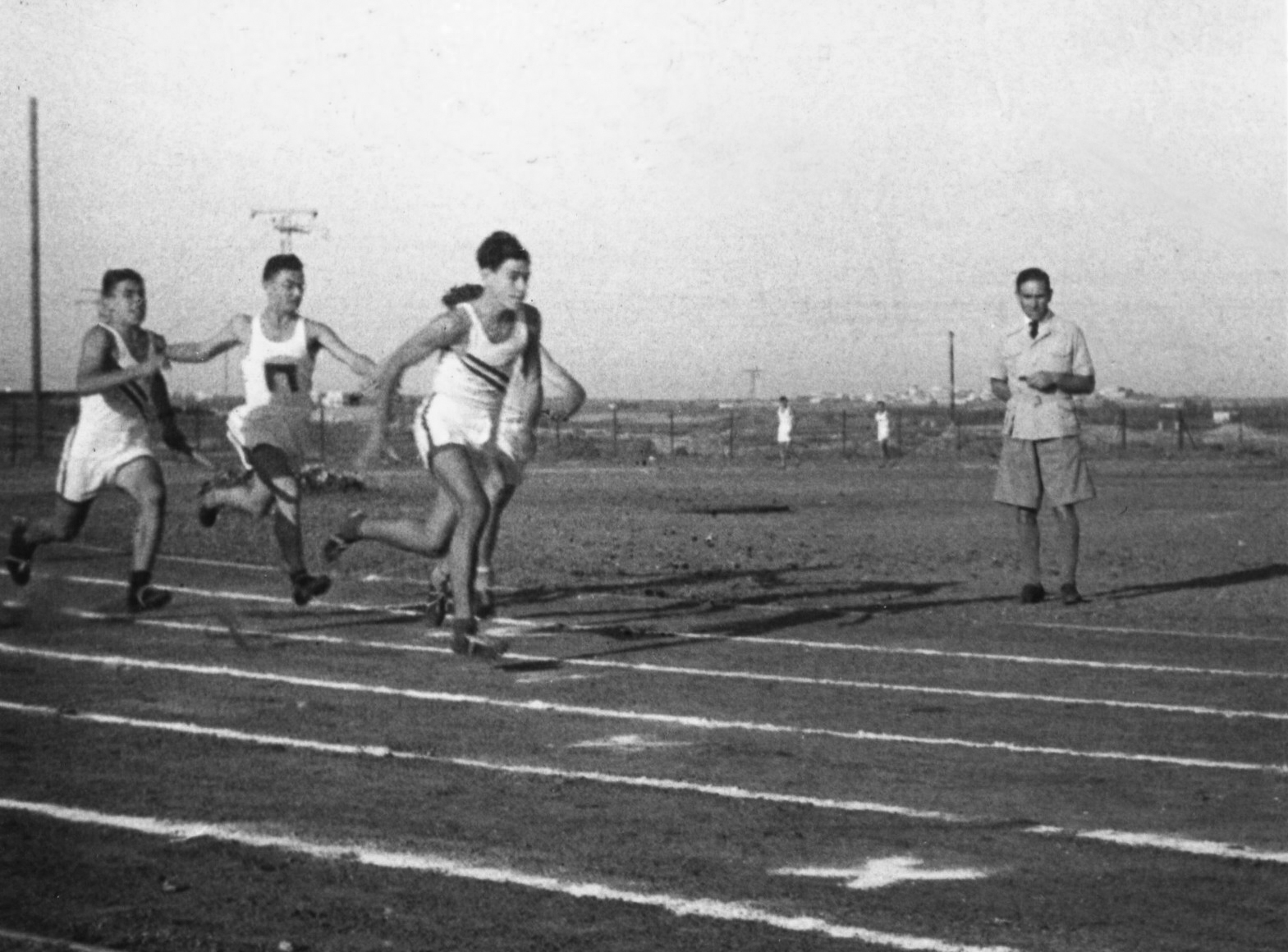 Adin Talbar Finshing Sprint - Israeli 800 Meter Champion 1942